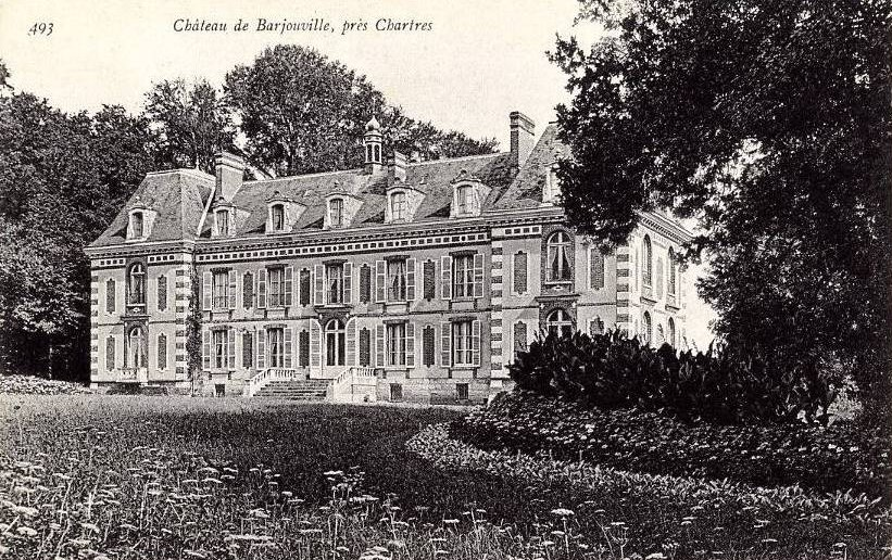 Barjouville Castle